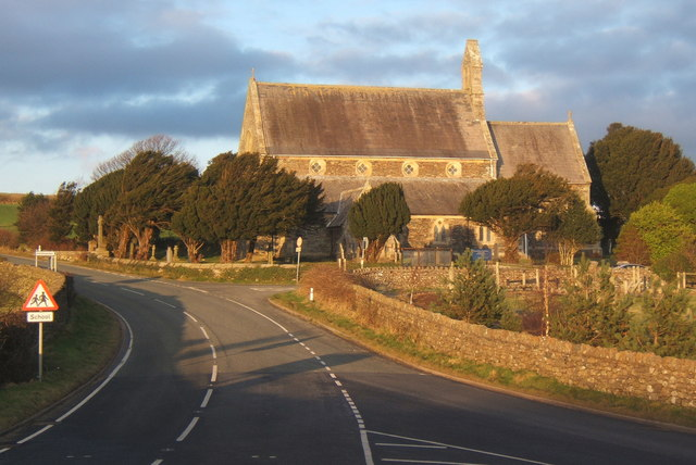 St Anne's Church, Thwaites By the A595 near the turn for Millom. The church is the topmost building in with the village of Hallthwaites down the lane to the right.